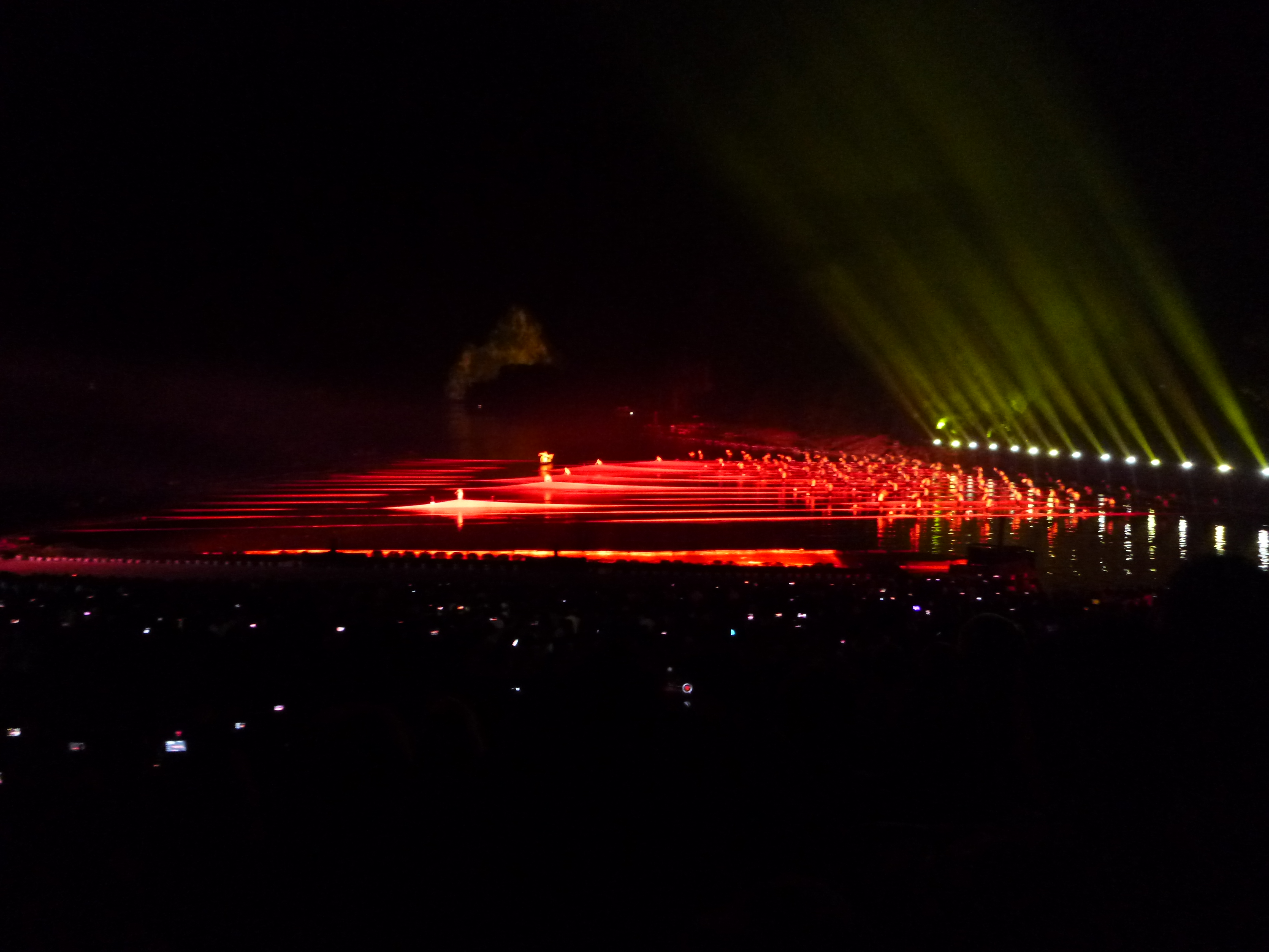 story of the legendary Third Sister Liu (刘三姐 Liú Sānjiě), whose story has been staged by Zhang Yimou